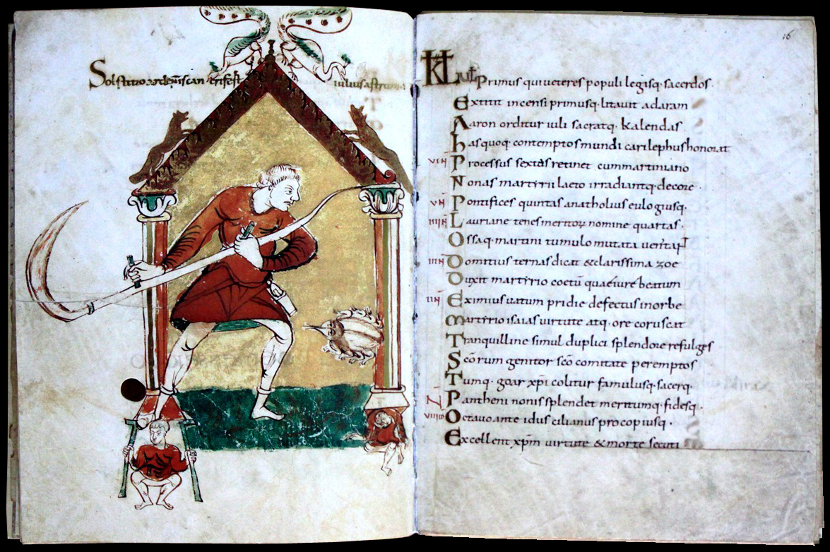 Wandalbert von Prüm Reichenau um 855. DAS REICHENAUER MARTYROLOGIUM FÜR KAISER LOTHAR I. Cod. Reg. Lat. 438, Biblioteca Apostolica Vaticana, Rom.